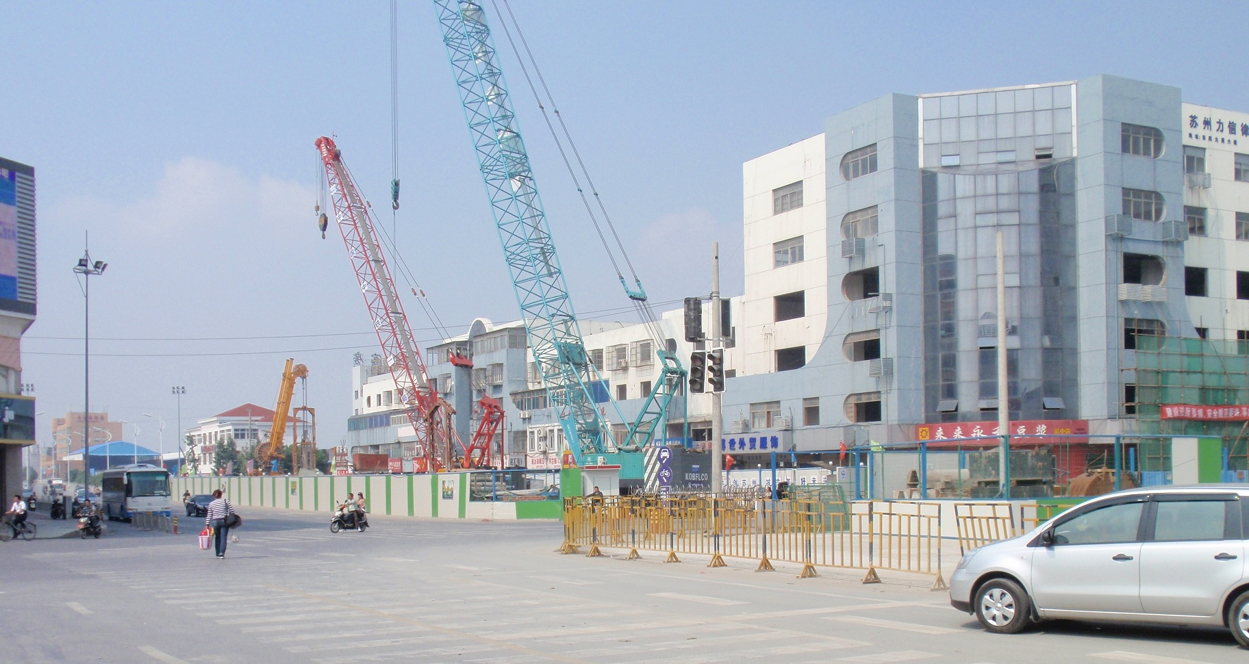 Construction site of Shihu Road Subway station in Suzhou (Line 2 and Line 4)